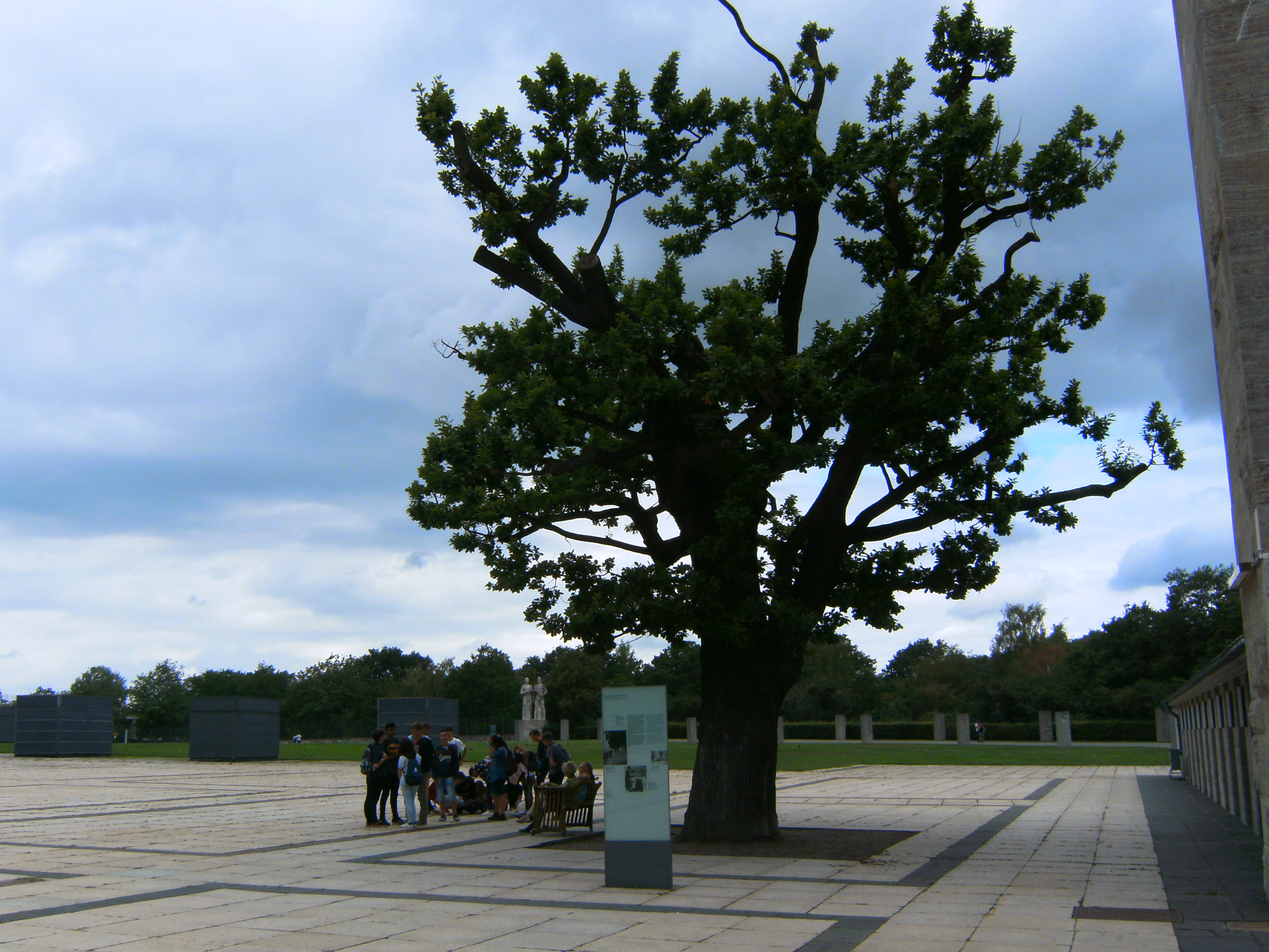 Olympiastadion Berlin: Near the entrance second oak tree (quercus) honouring Victor von Podbielski.